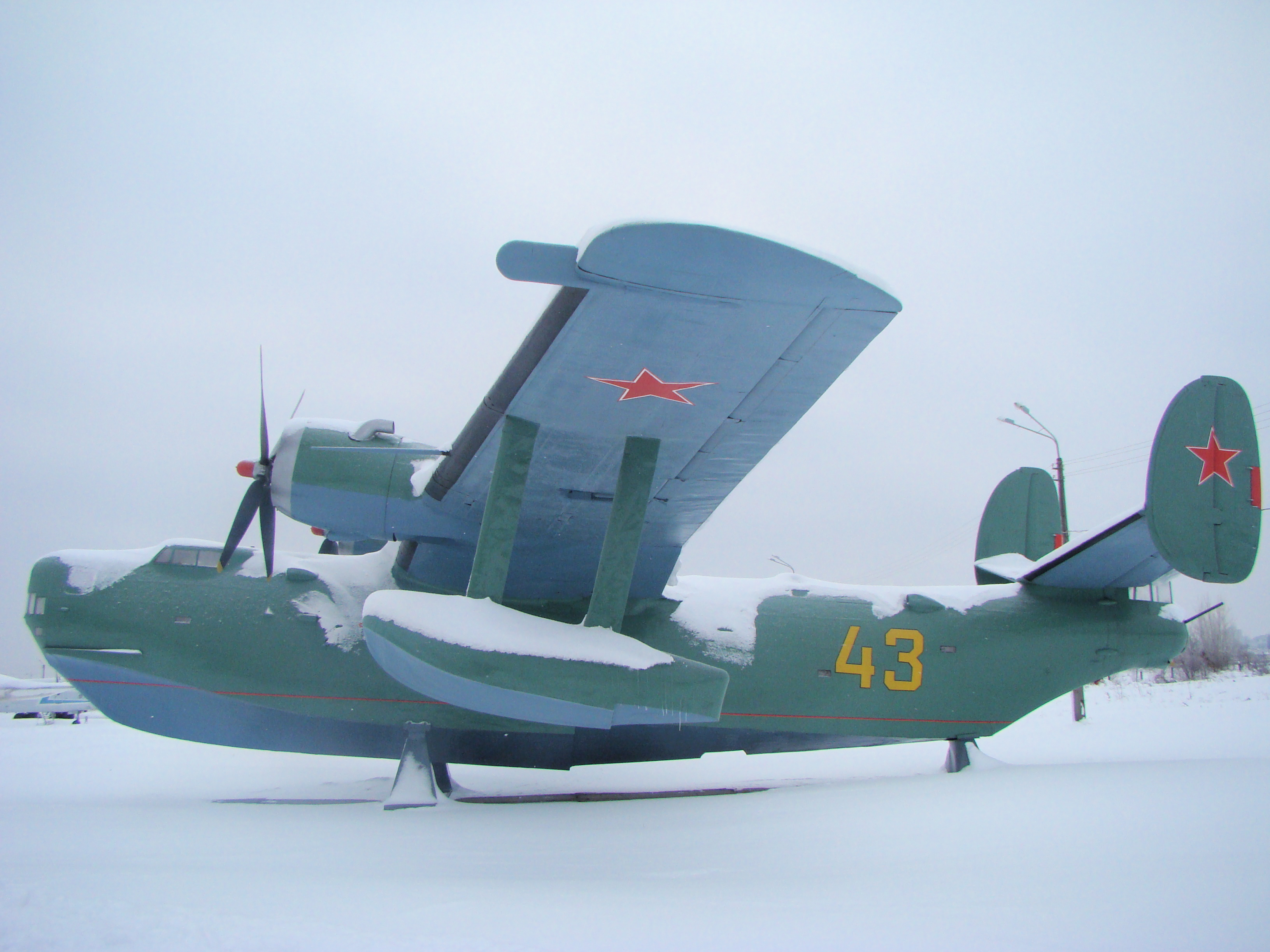 Be-6 at Ukrainian State Aviation Museum in Kyiv.